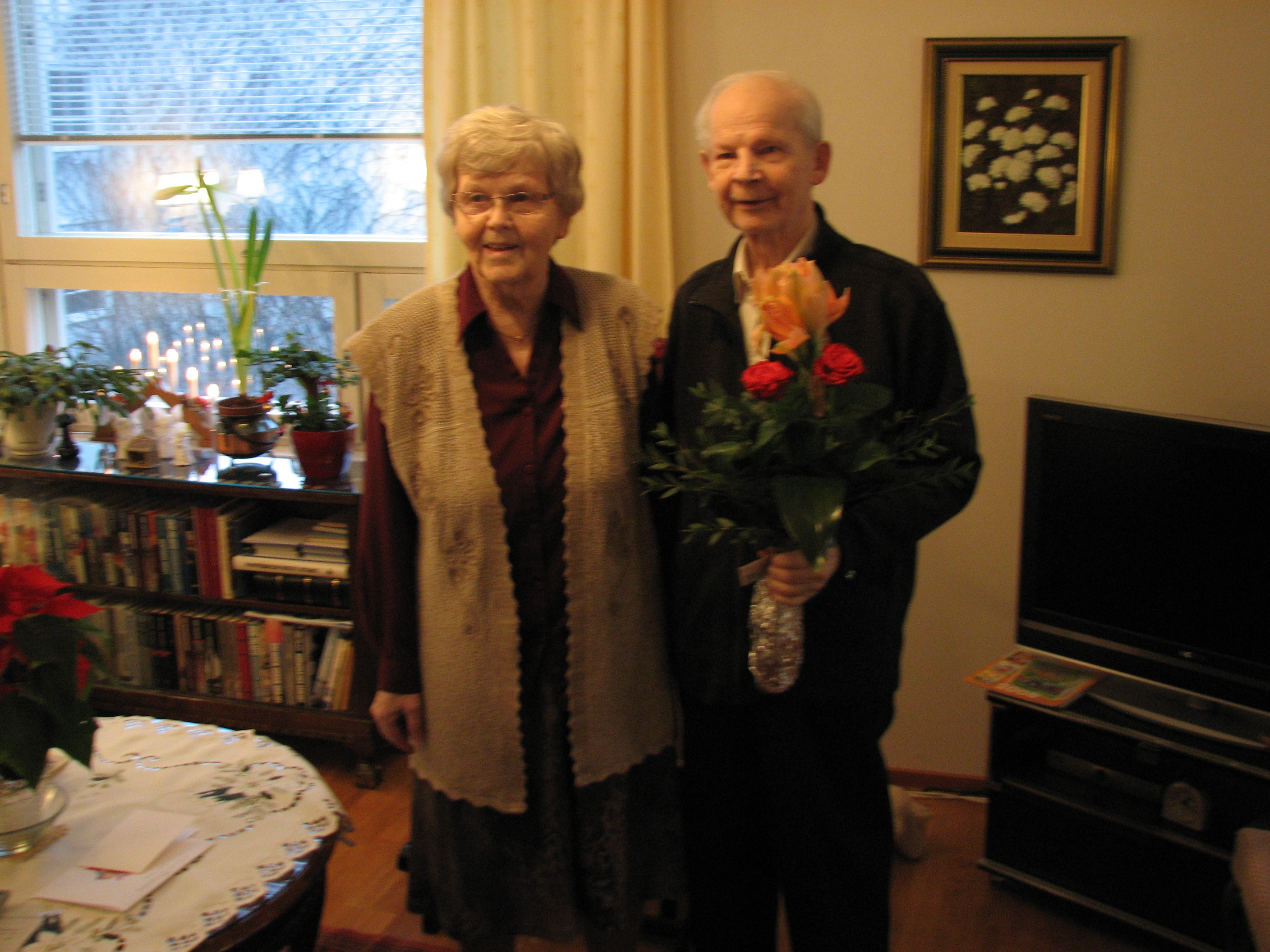 Onni and Kerttu Palaste at their home in Helsinki.